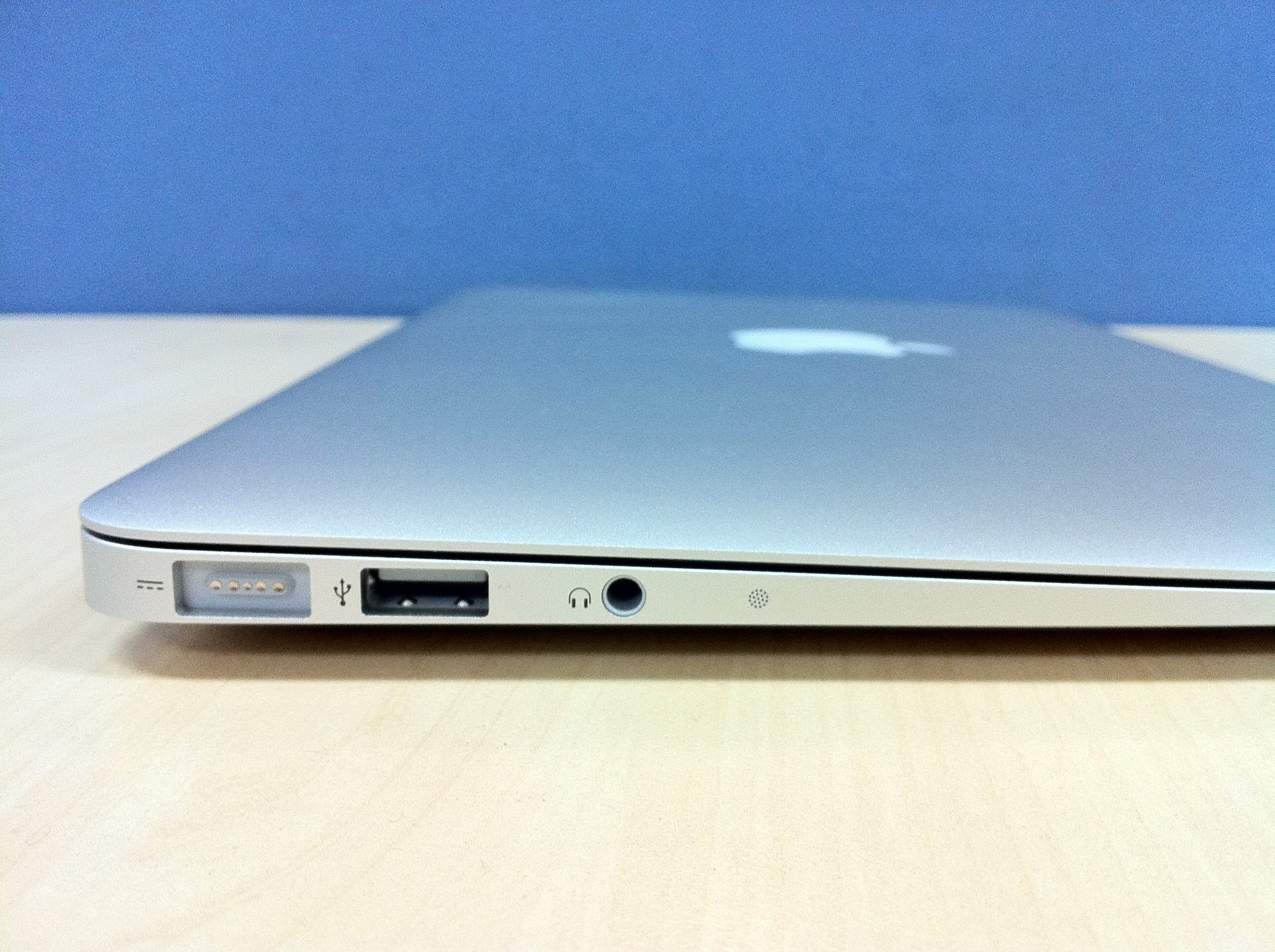 MagSafe power plug and USB and headphone and microphone.